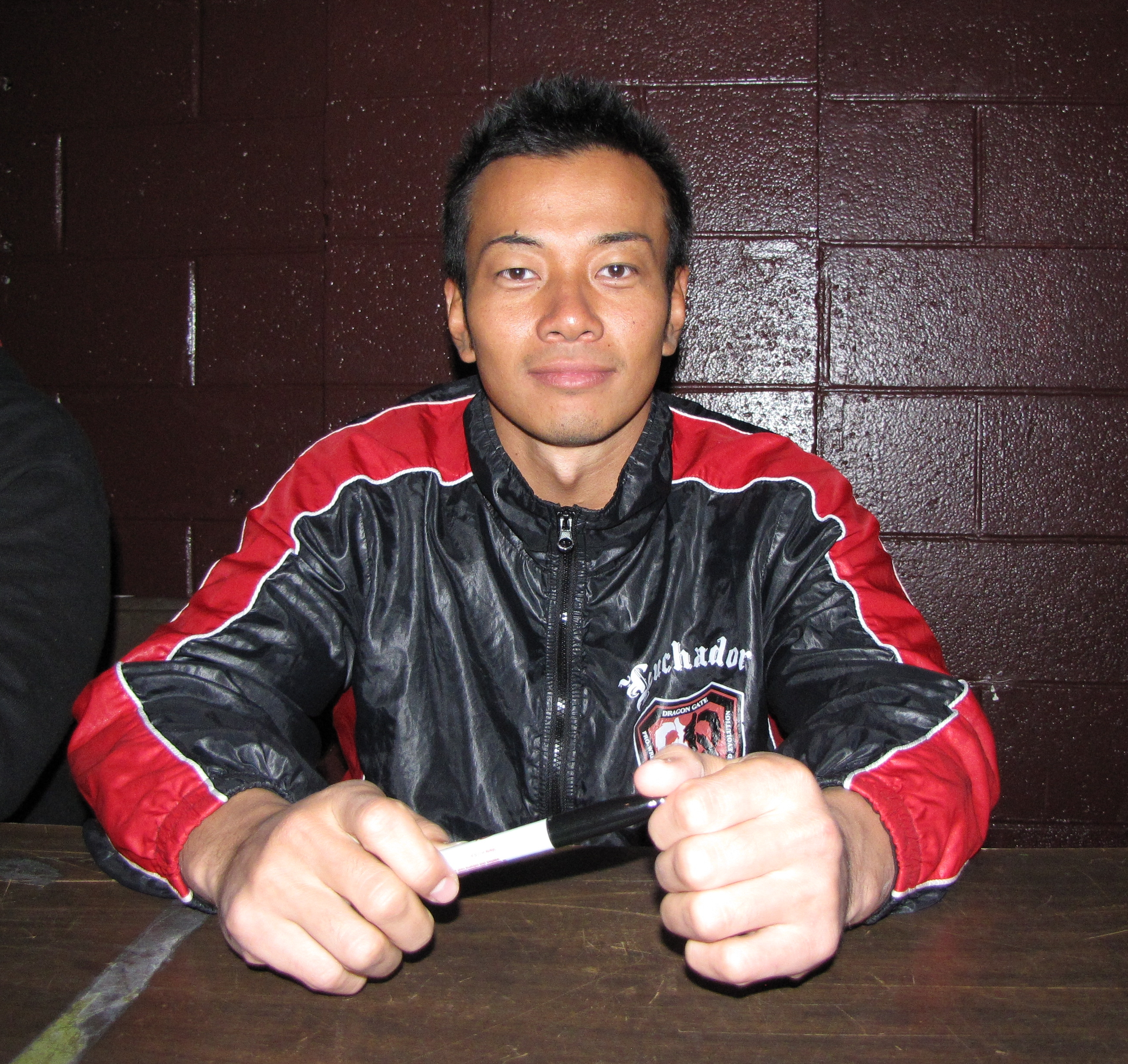 Photo of Masato Yoshino.